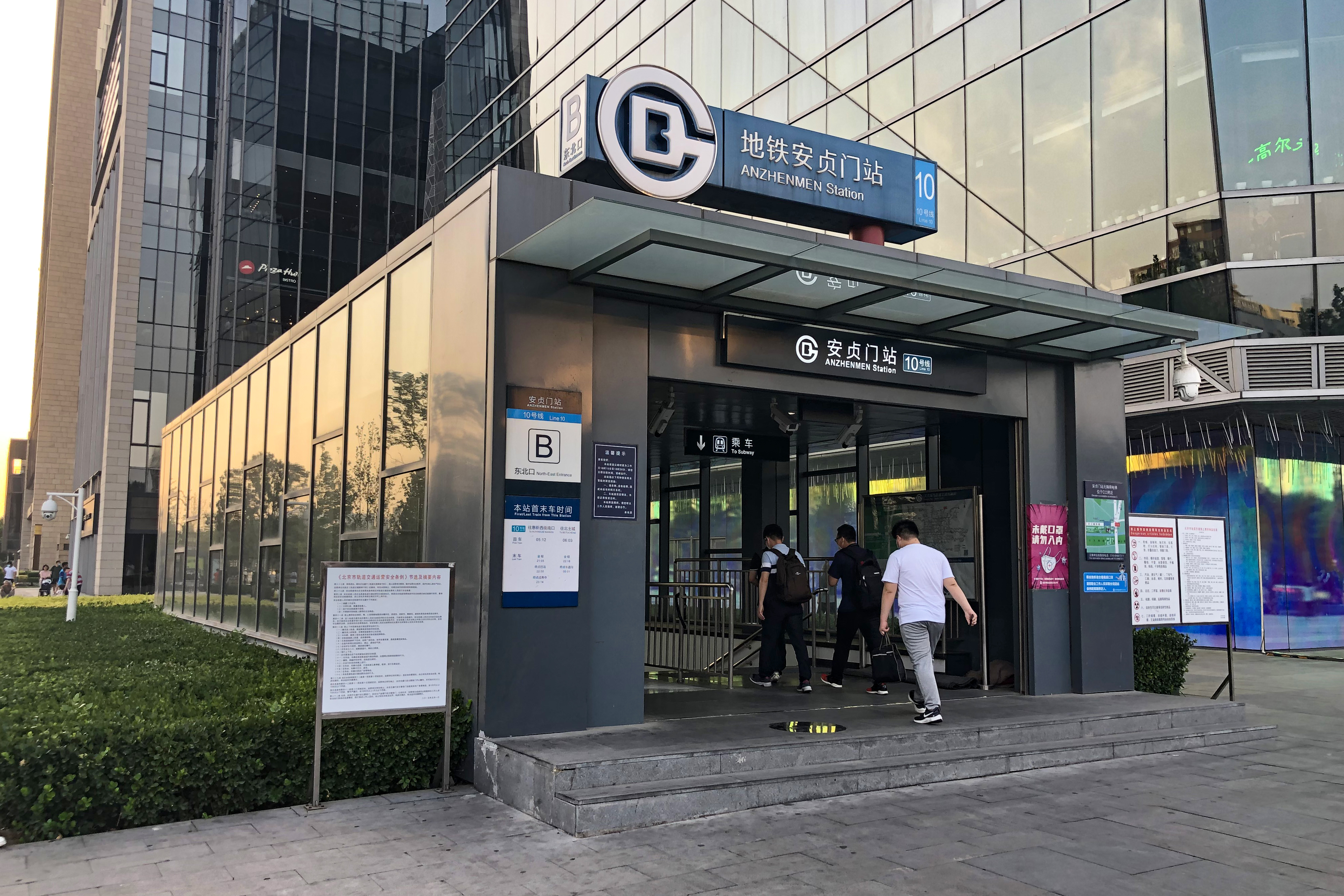 Besides uni ELITE.